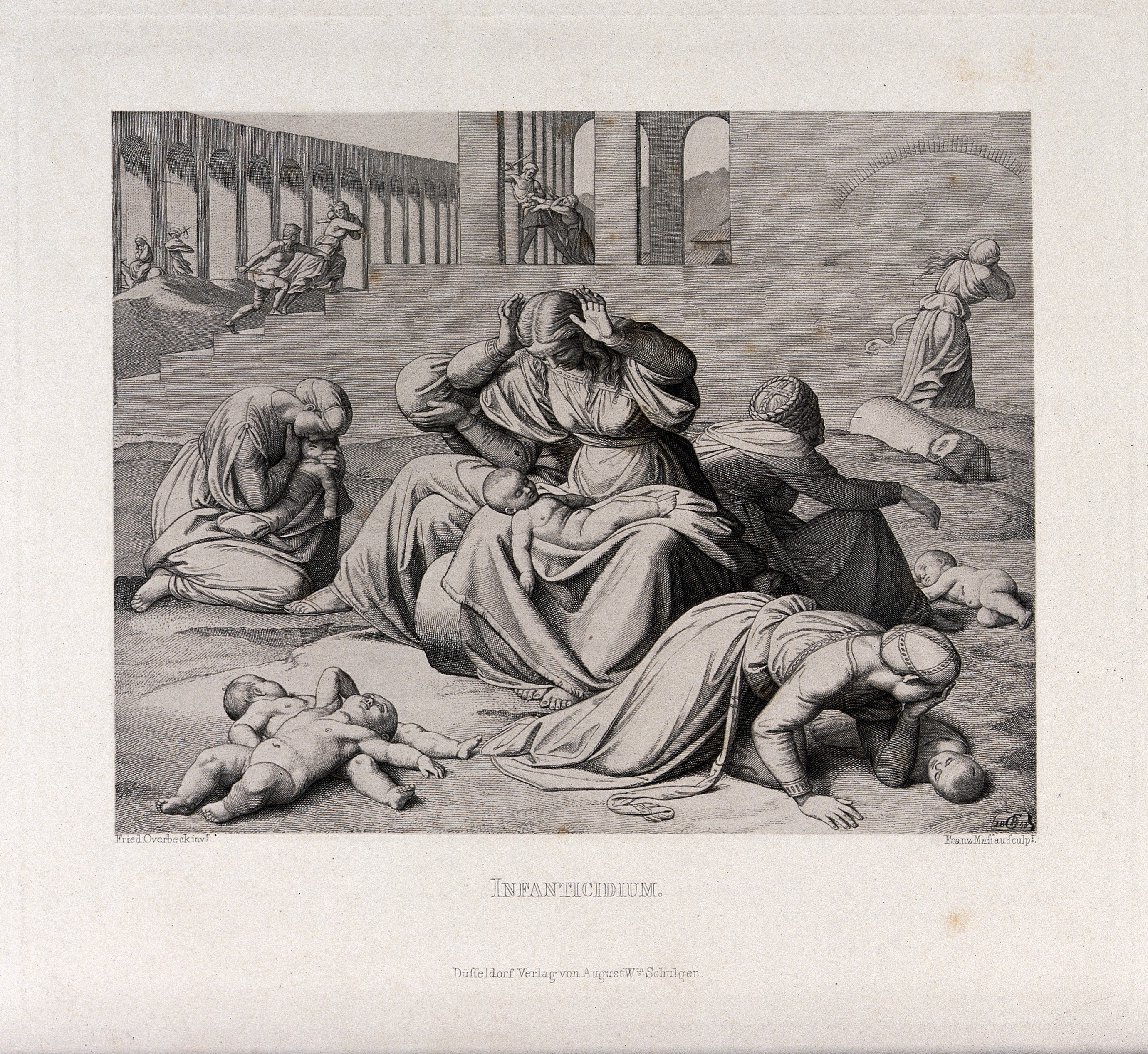 The massacre of the innocents. Etching by F.P. Massau after J.F. Overbeck, 1843. Iconographic Collections Keywords: Franz Paul Massau; Johann Friedrich Overbeck